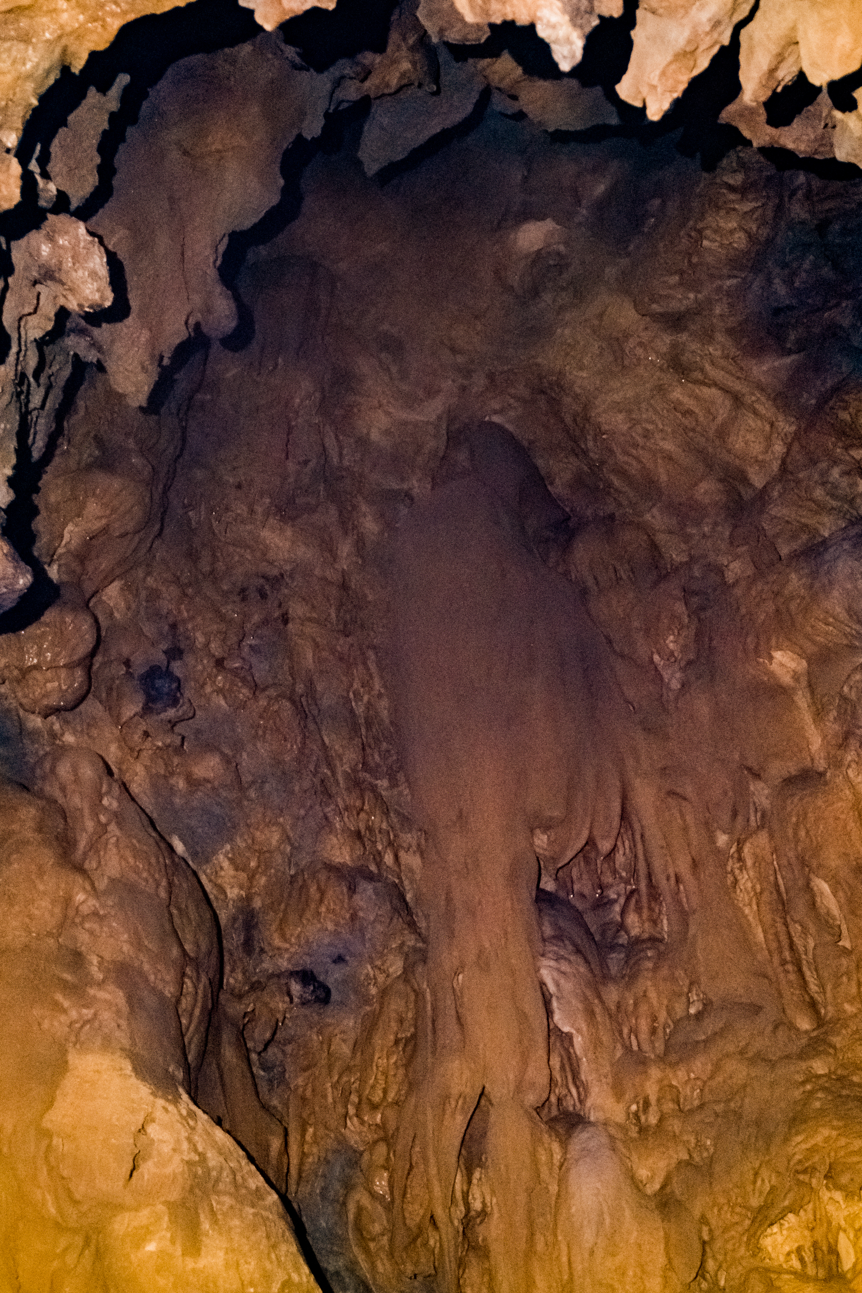 Maboroshi-no-taki (The transient/phantom waterfall) in Kawachi no Kaza-ana. The waterfall is now dry, but when the water increases, the waterfall will appear.